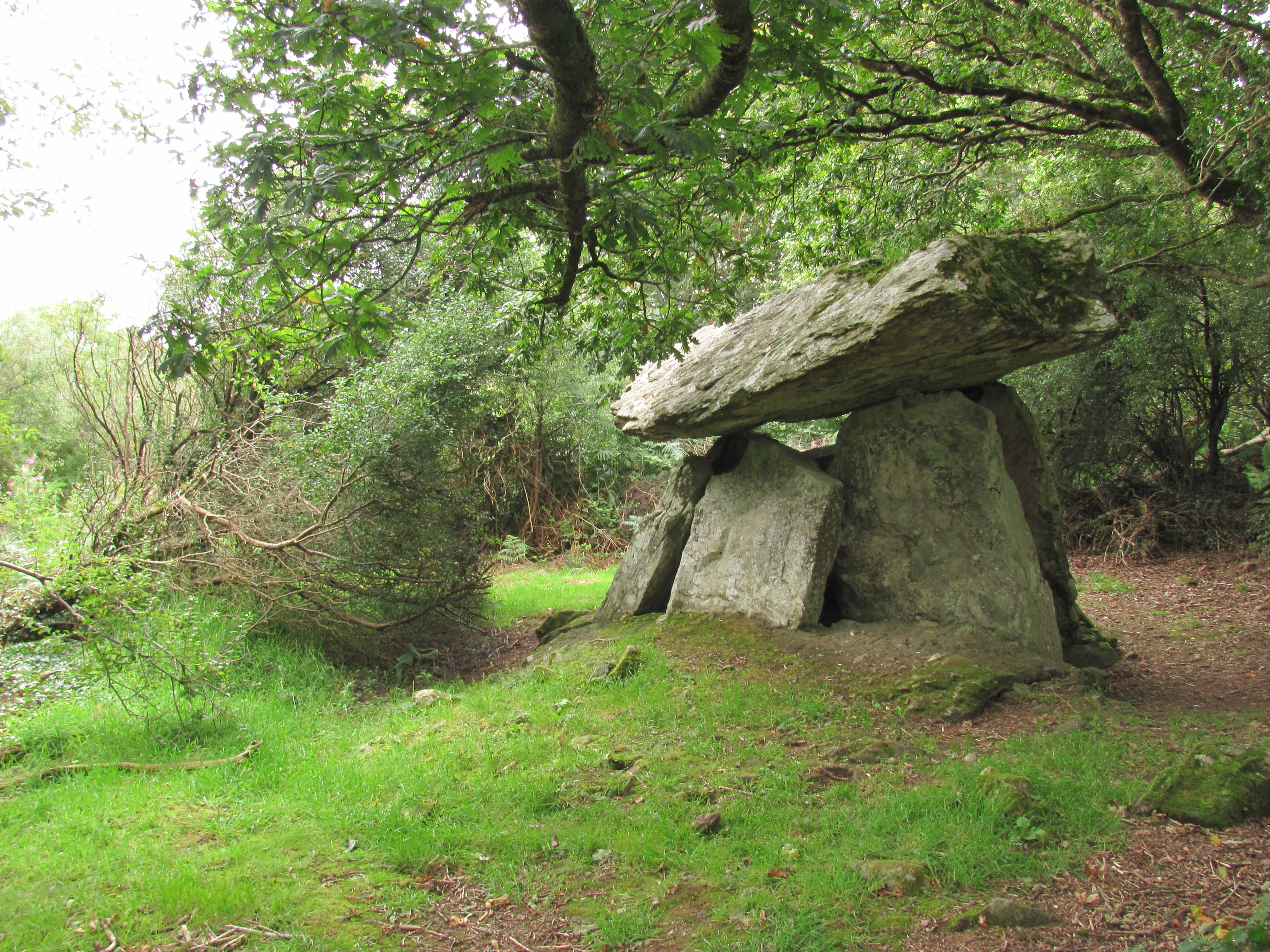 Gaulstown Dolmen